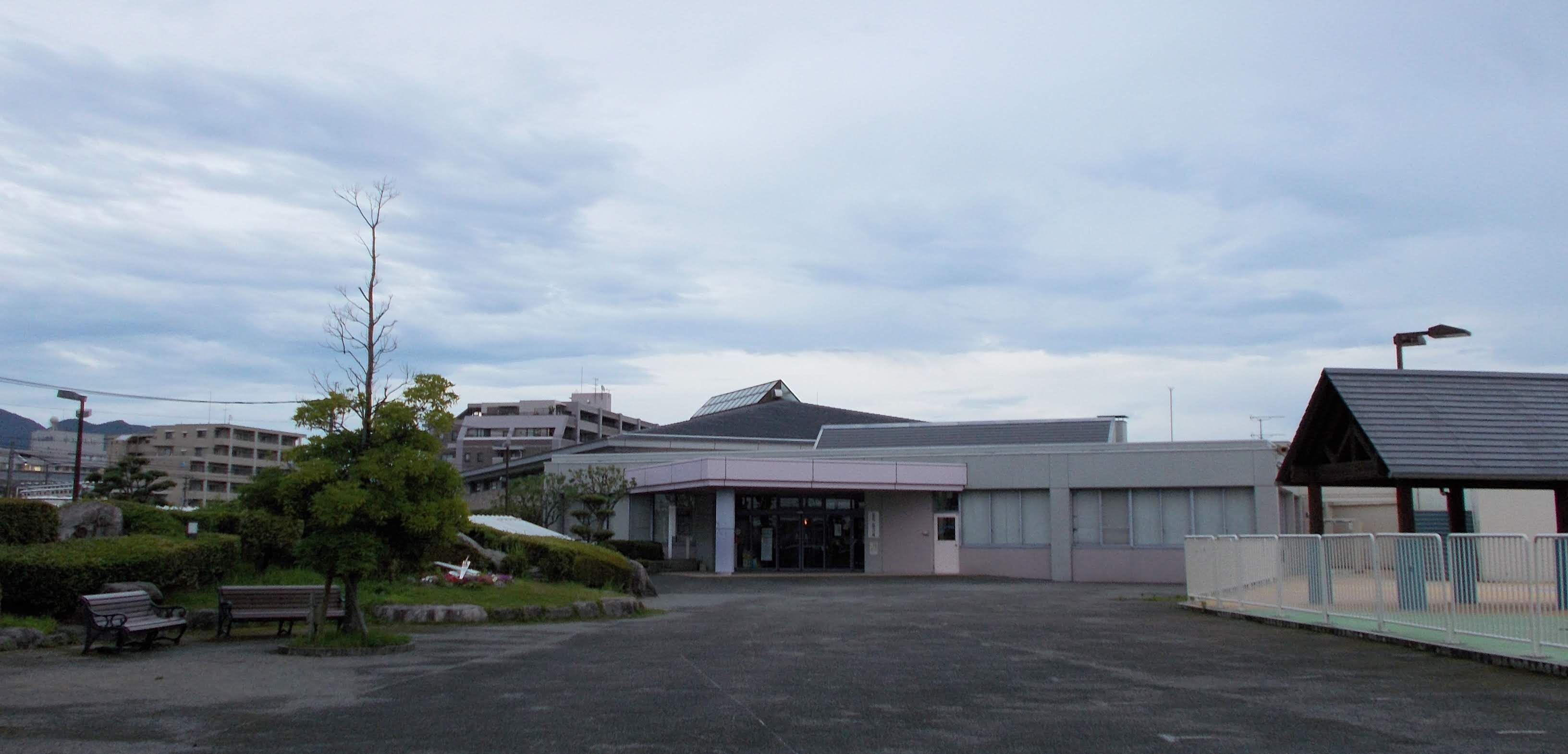 Dazaifu Municipal Swimming Pool, Dazaifu, Fukuoka, Japan